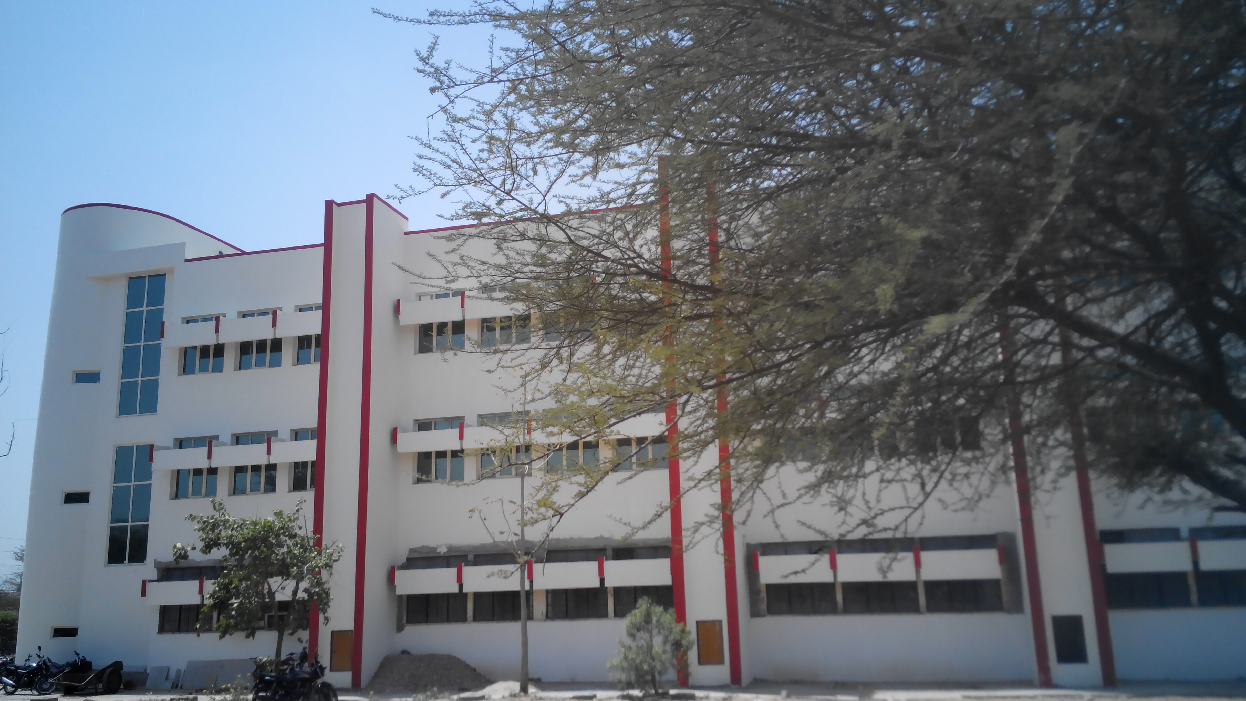 Malaviya National Institute of Technology Campus